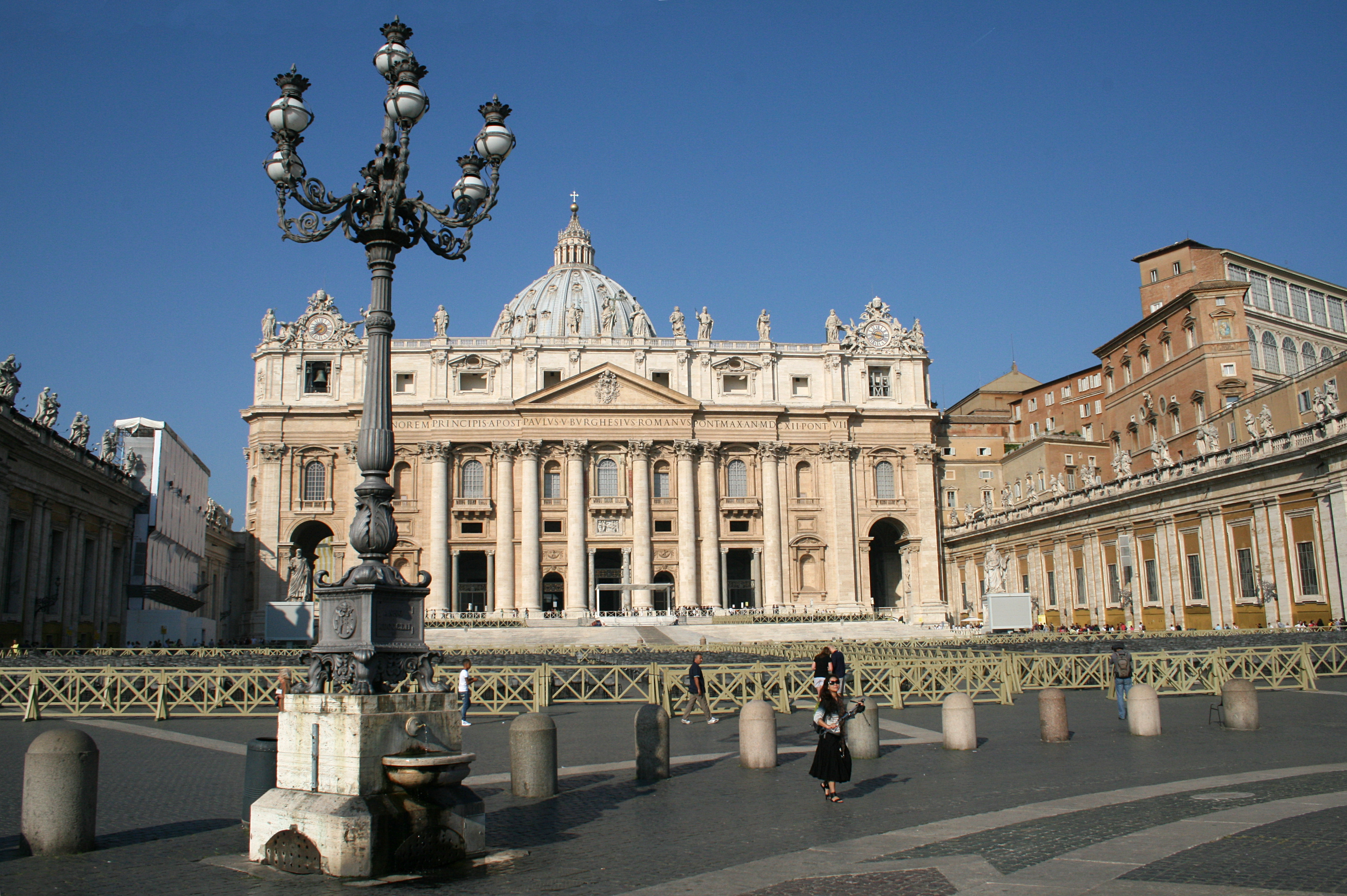 Façade of the St. Peter's Basilica in Vatican City.